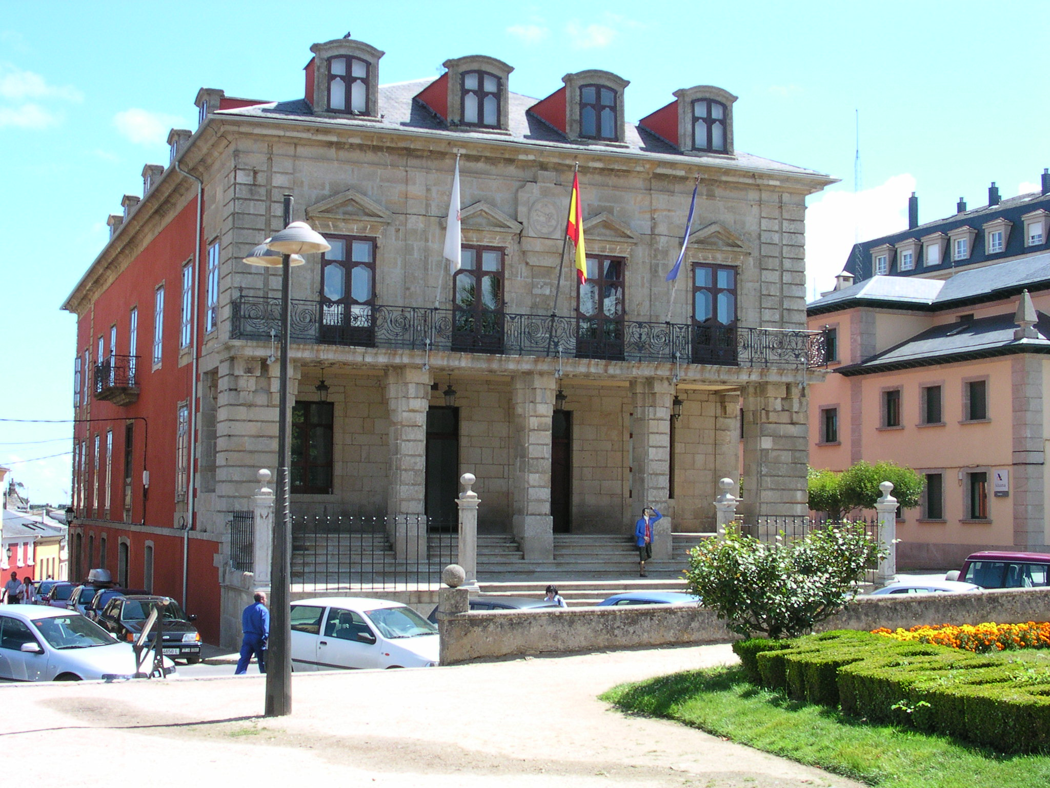 Ribadeo's town hall building